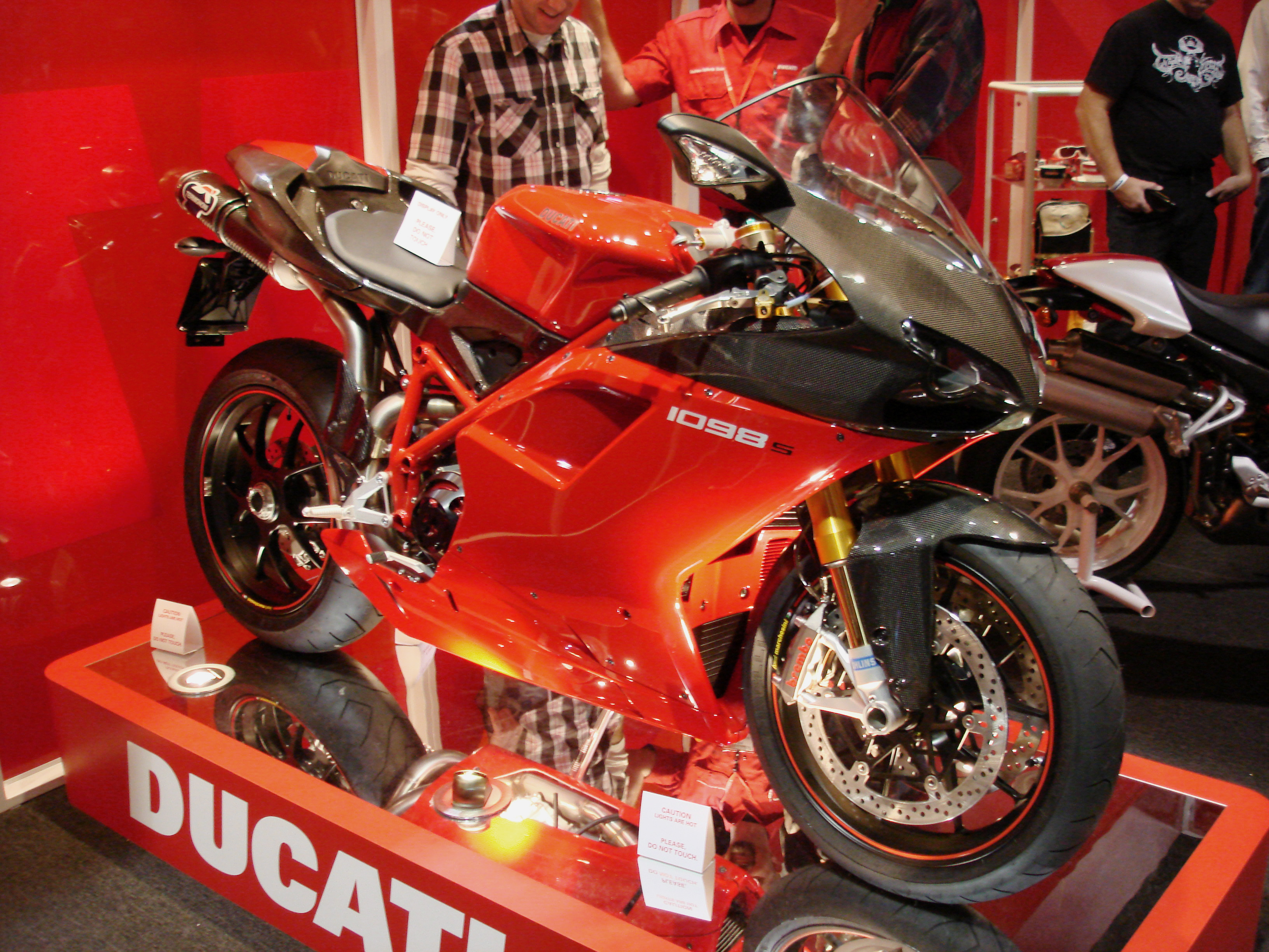 2007 Ducati 1098 S on display at the 2006 International Motorcycle Show in Long Beach, CA. Camera used was a Sony Cyber-shot DSC-W100.